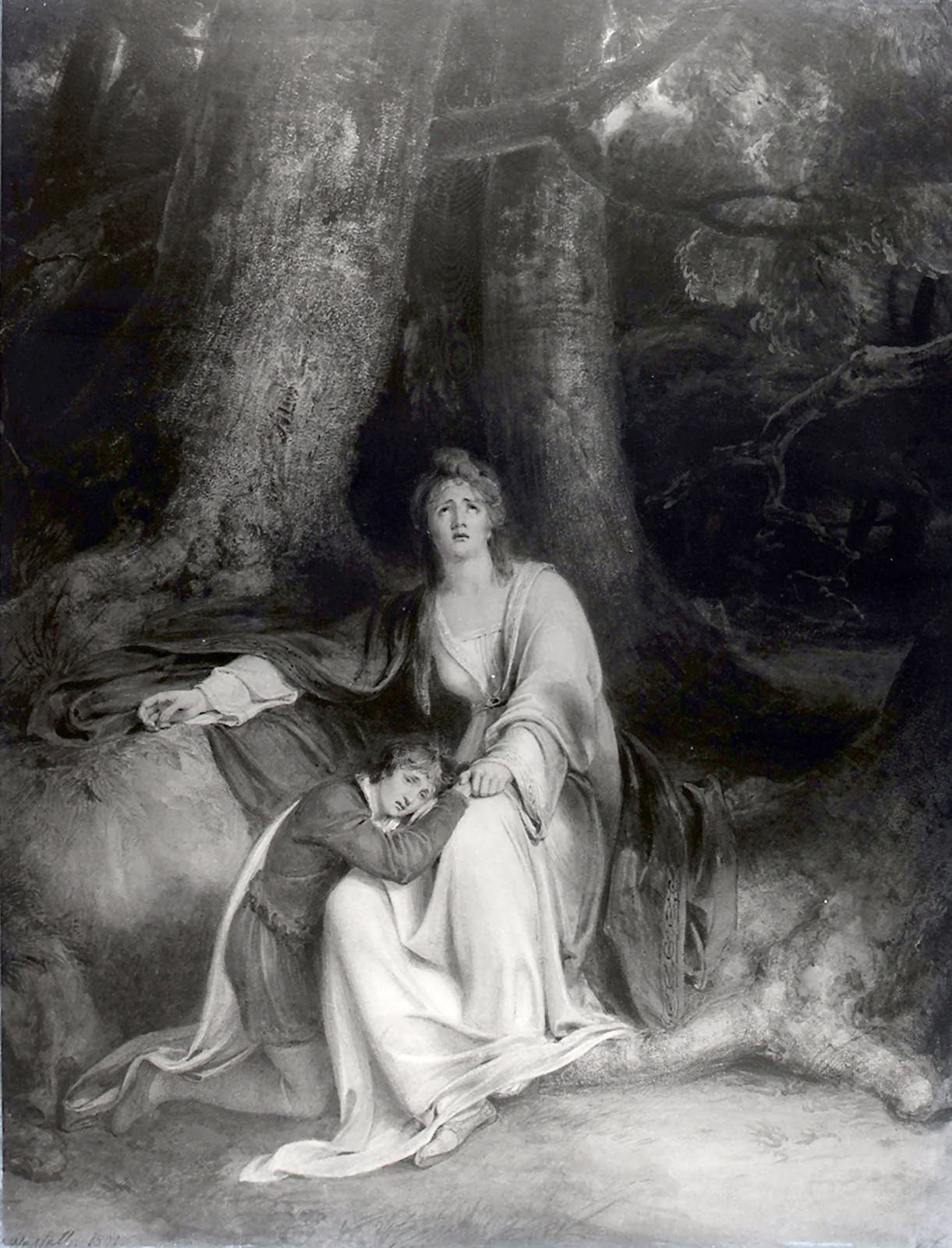 Margaret of Anjou and her son, Edward Prince of Wales, near perishing from hunger and fatigue, in the forest to which they fled, after the Battle of Hexham